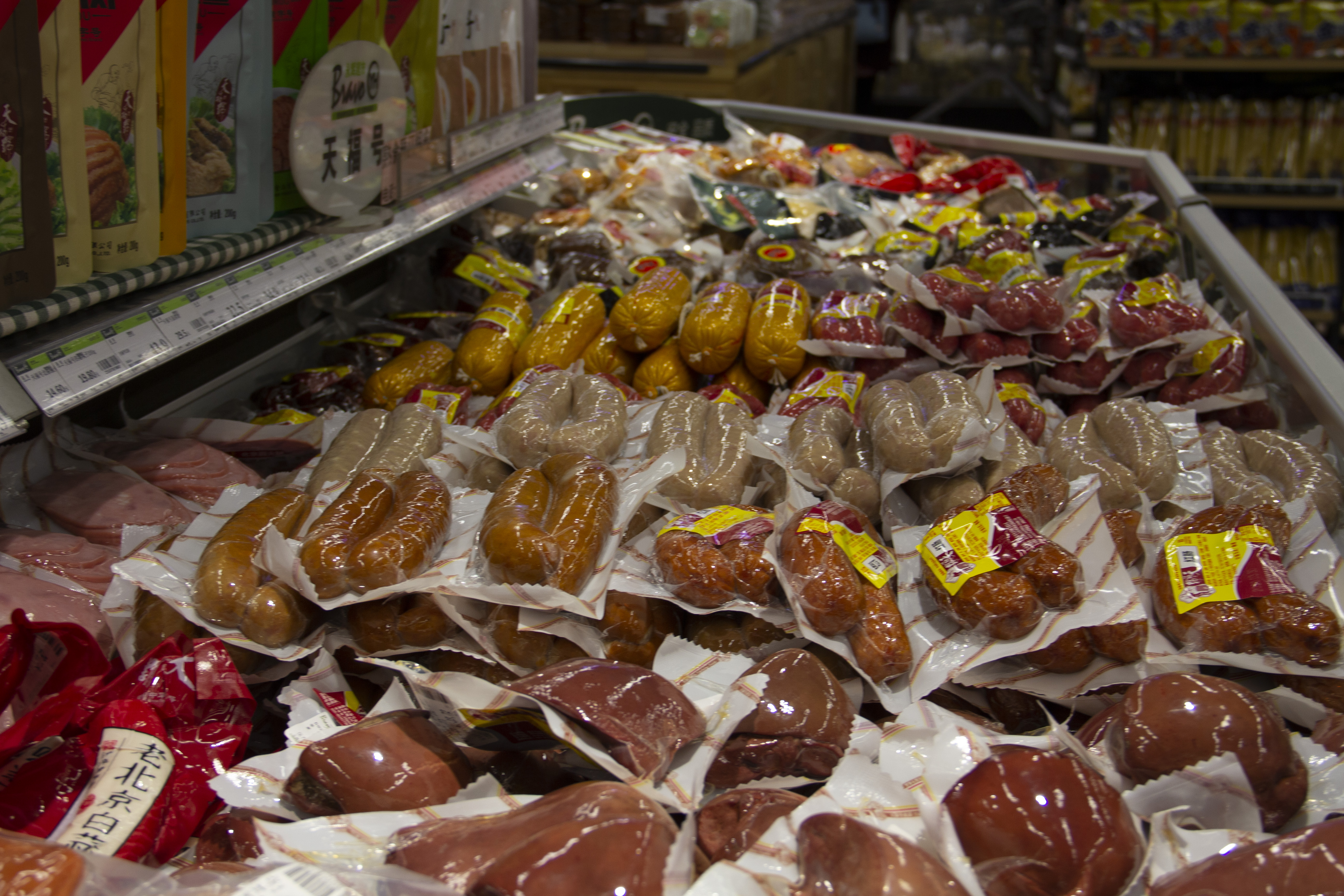 Tian Fu Hao meat